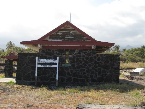 The Hoku Loa Congregational Henry Opukahaia Chapel in Punaluu, Ka'u, Hawai'i.